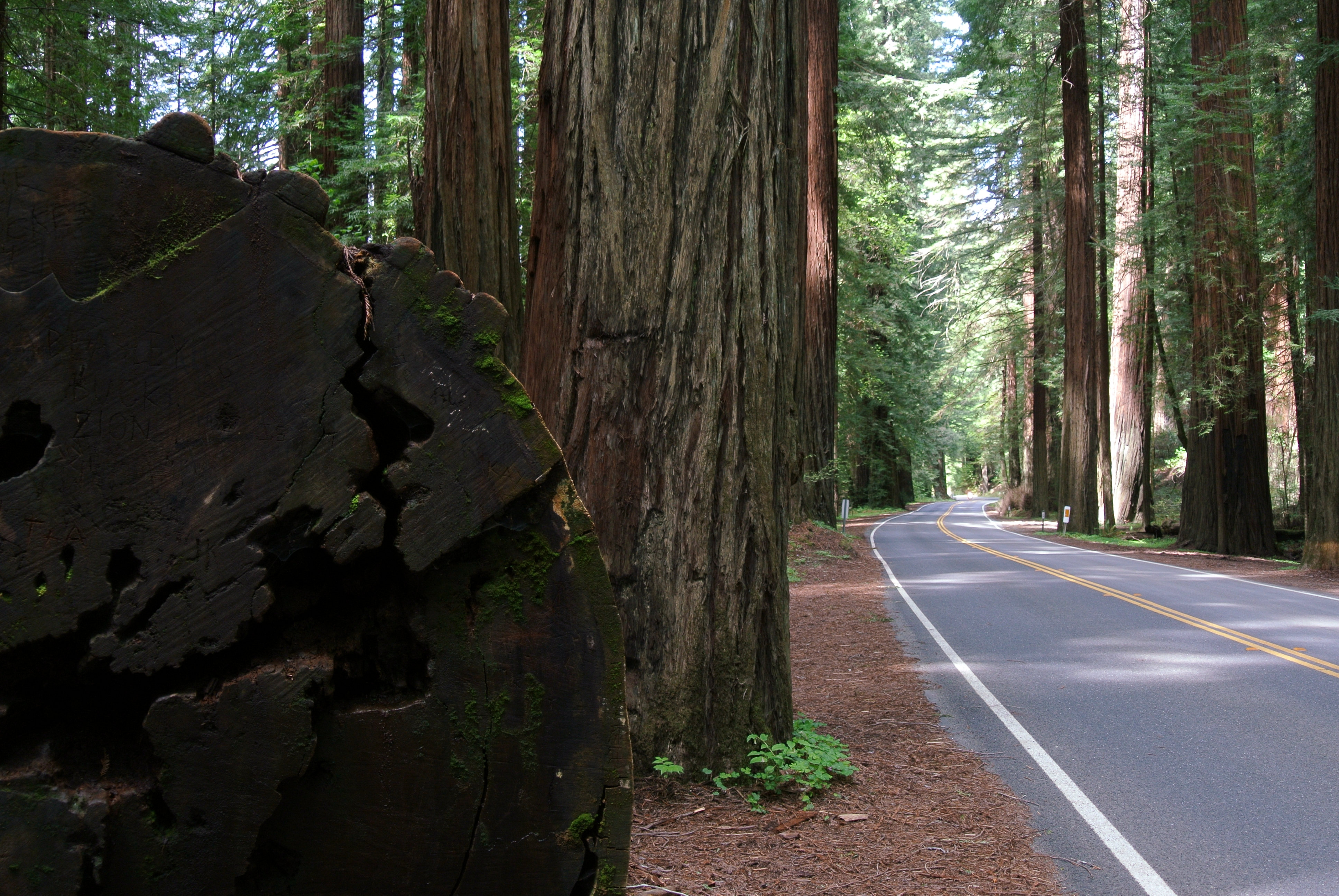 CA 254 (Avenue of the Giants) and redwood trees, Humboldt Redwoods State Park.